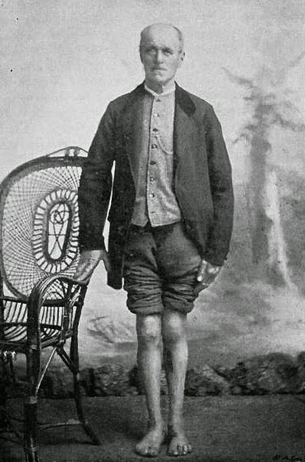 Photograph of Pieter De Rudder, published in Le Pèlerin of 13 July 1893